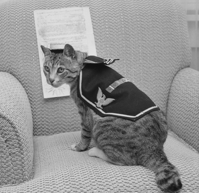 Pooli, cat who served aboard a United States attack transport during World War II celebrates 15th birthday Published caption: WAR VETERAN-Pooli, who rates three service ribbons and four battle stars, shows she can still get into her old uniform as she prepares to celebrate her 15th birthday. The cat served aboard an attack transport during World War II.